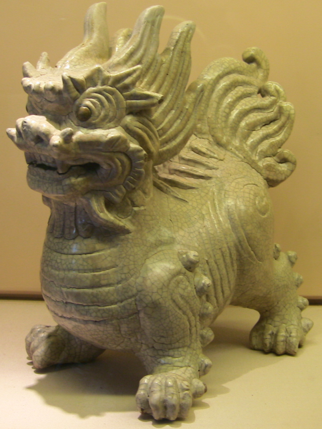 A ceramic statue of young lion manufactured by artists from Bát Tràng village (Northern Vietnam) in the mid-18th century.